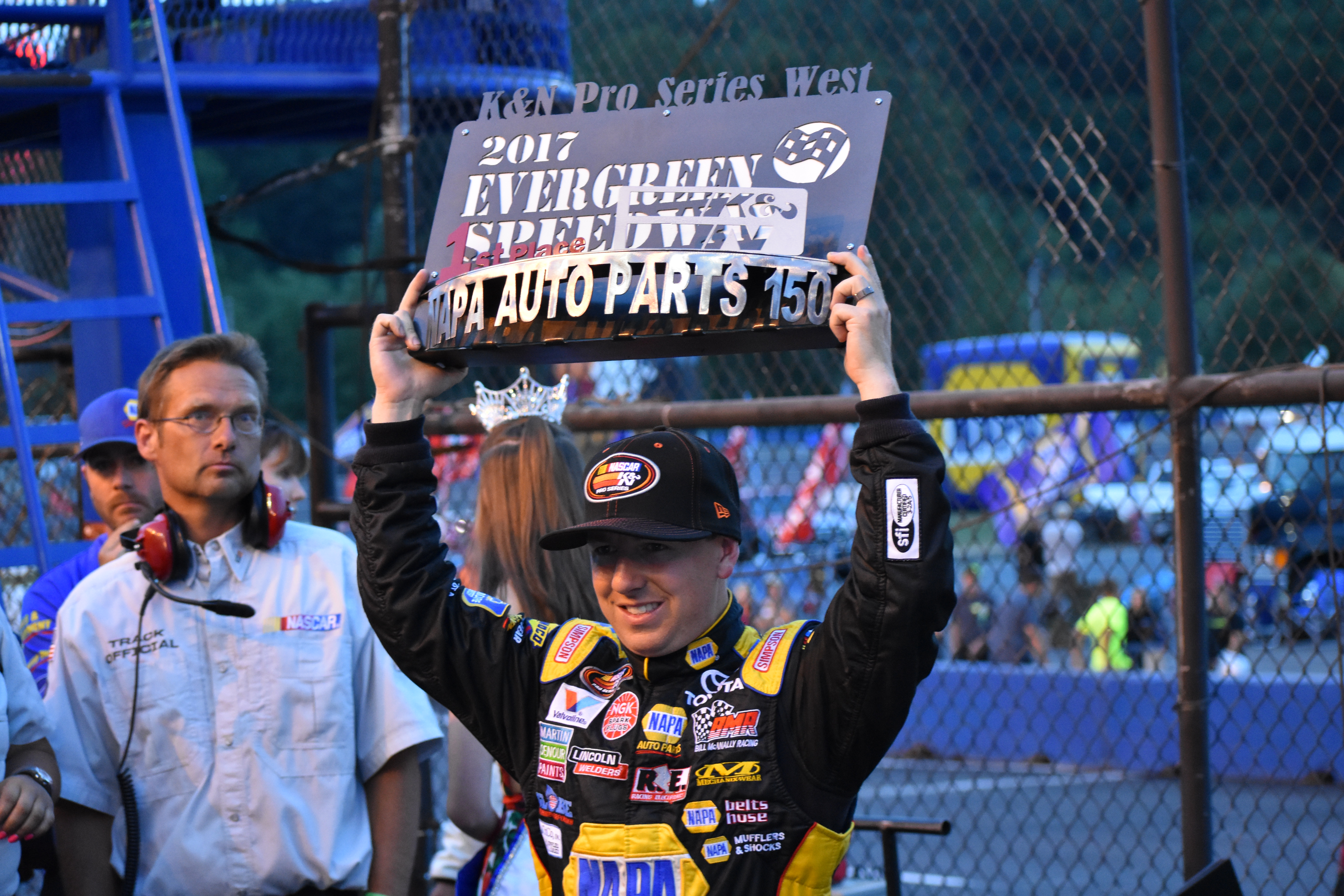 Eggleston hoisting the race-winning trophy at Evergreen Speedway after leading all 150 laps to score the victory in 2017.